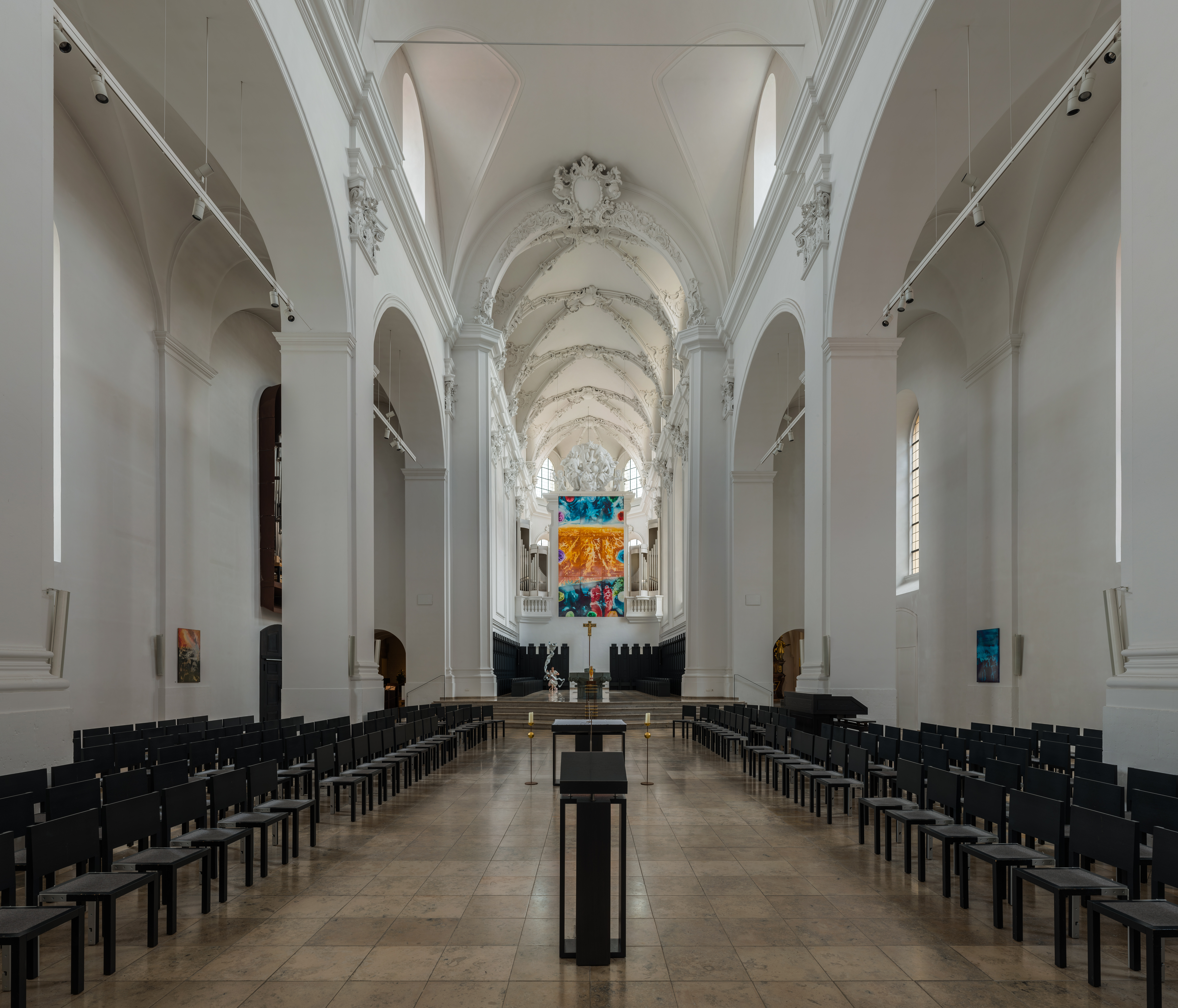 The nave of Augustinerkirche, WürzburgThis is a photograph of an architectural monument.